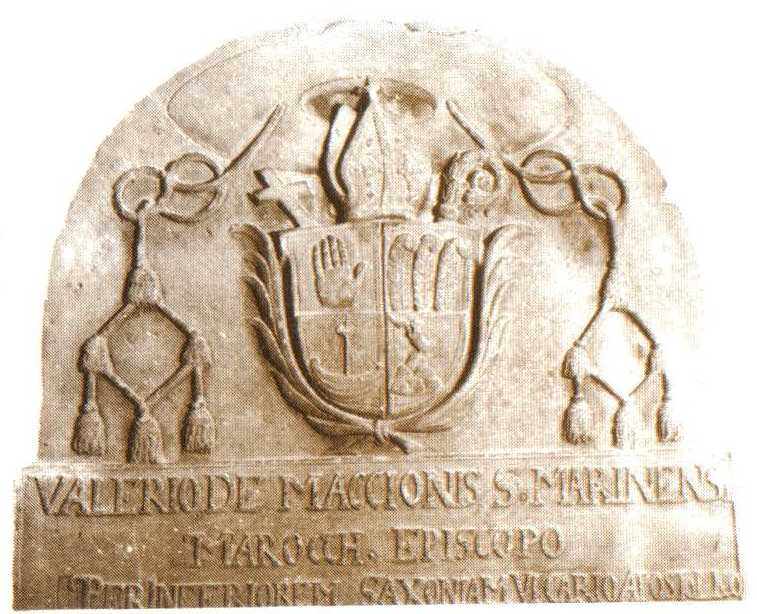 Hanover, Basilica of St. Clemens, Crypt, Epitaphe of Valerio Maccioni [1], Titular bishop of Marocco, first Apostolic Vicar of the Northern Missions in Hanover